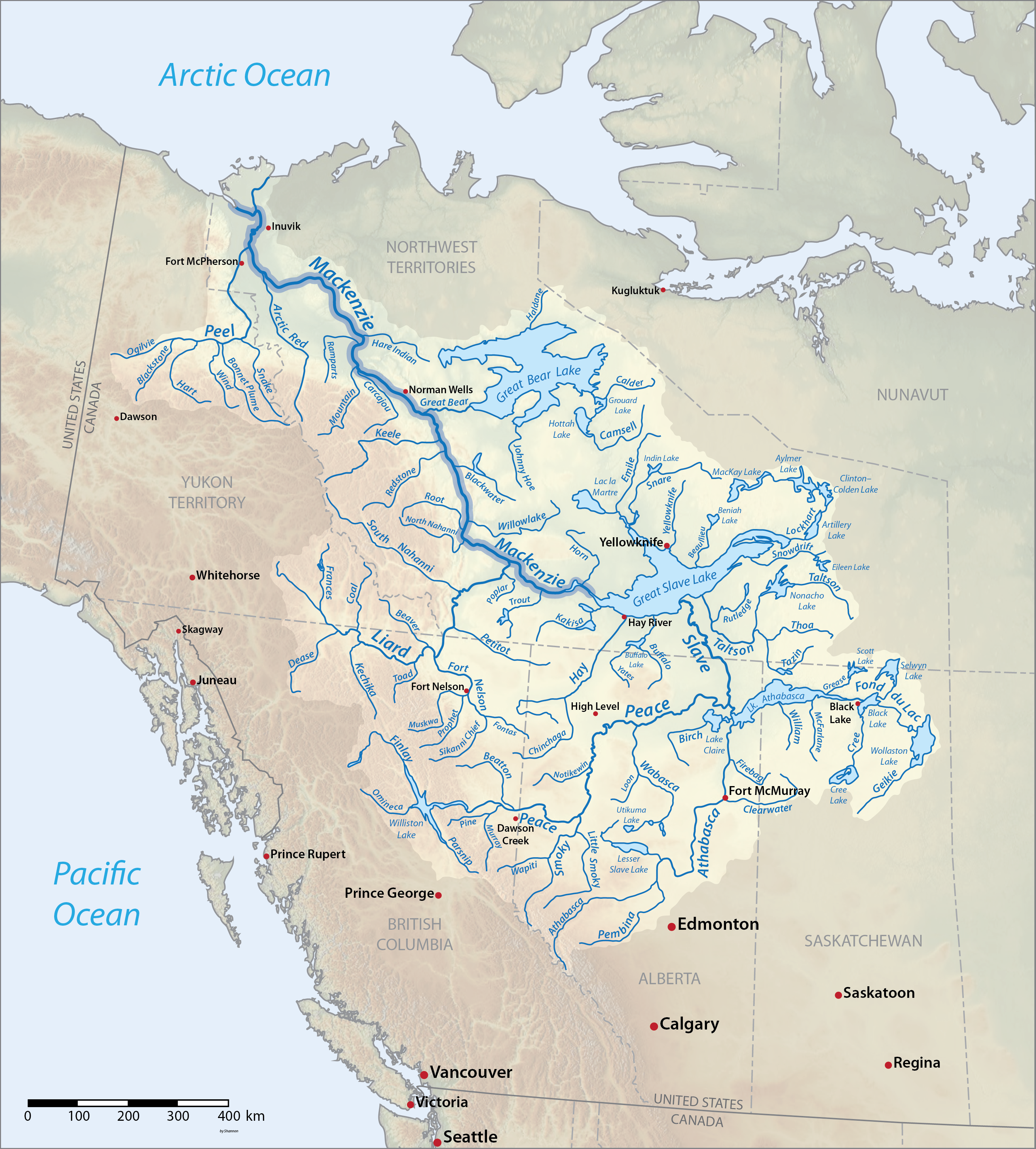 Map of the watershed which drains northwestern Canada, including tributaries, towns and major lakes. More accurate version of File:Mackenzierivermap.jpg. Shaded relief and coastline from USGS data.